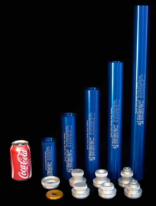 rocket motor